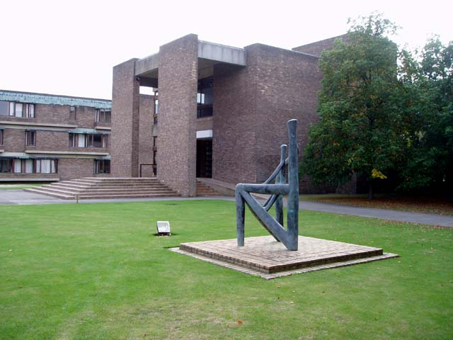 Churchill College. The main entrance on Storey's Way. One of Churchill's many works of sculpture is in the foreground.